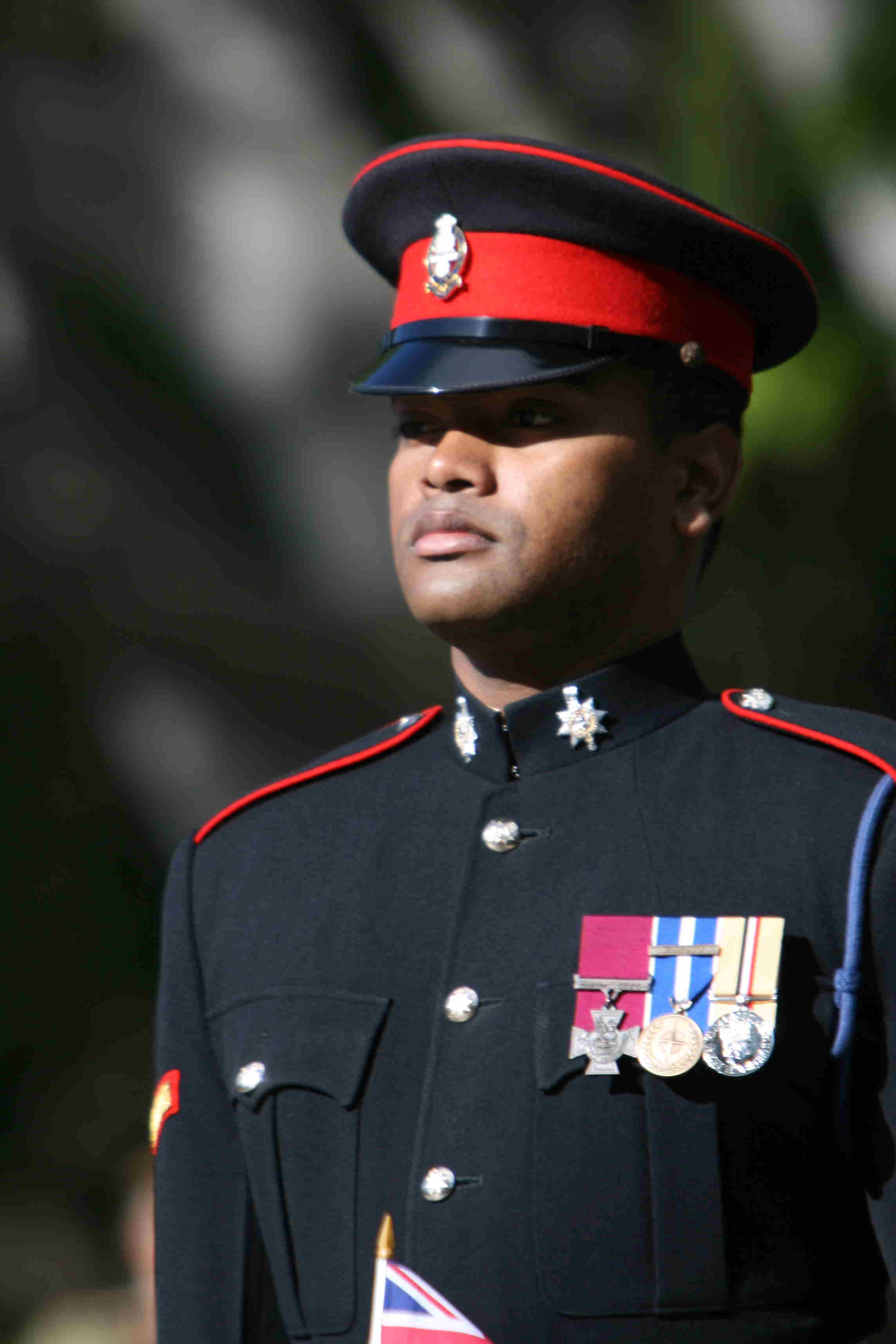 Lance Corporal Johnson Beharry, VC.